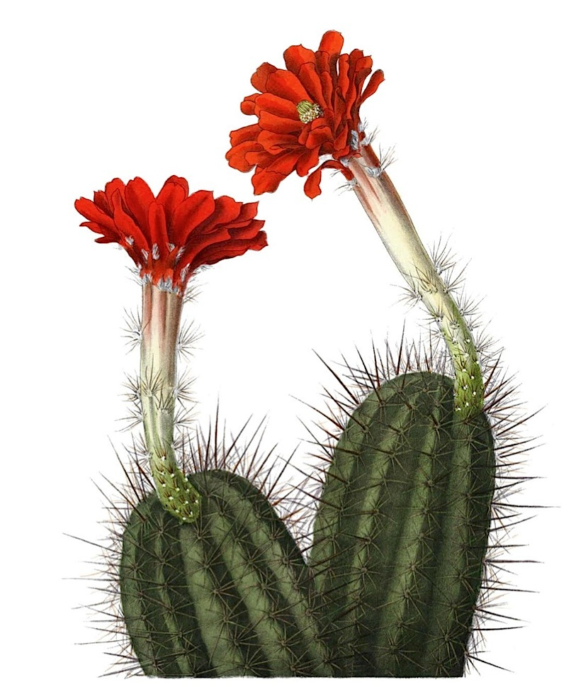 Echinocereus polyacanthus subsp. acifer